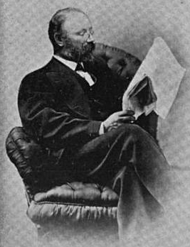 Portrait of J. W. Black, from "In Memoriam: J. W. Black," Wilsons Photographic Magazine, March 1896, p. 120.